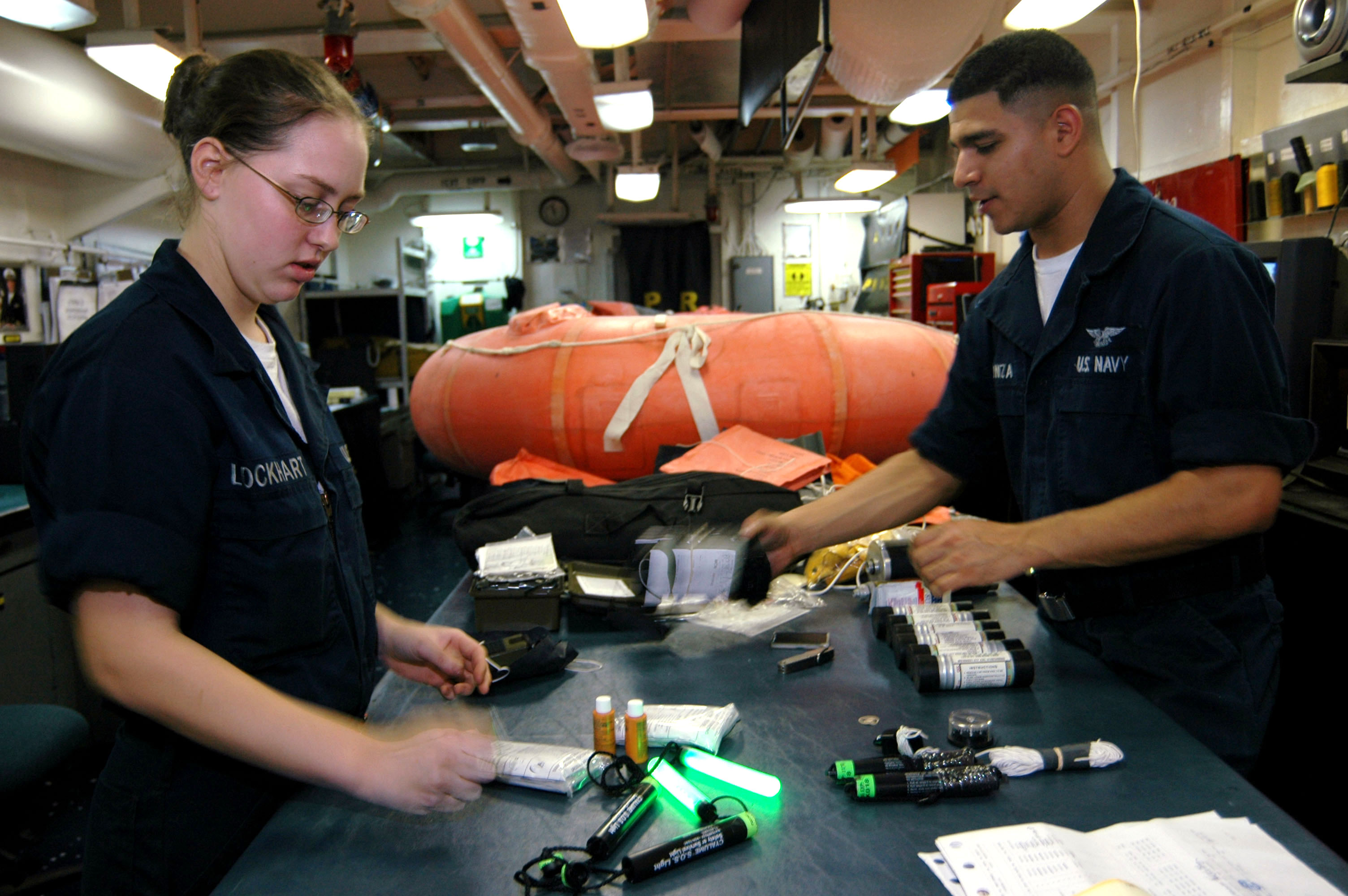 PACIFIC OCEAN (Aug. 1, 2007) - Aircrew Survival Equipmentman Airmans Jessica Lockhart (left), and Rudy Inzunza inventory a C-2A Greyhound's life raft kit in USS Kitty Hawk (CV 63) paraloft shop. The life raft kit contains a seven-person life raft and survival equipment for the pilot and crew. Kitty Hawk is two months into its summer deployment from Fleet Activities Yokosuka, Japan. U.S. Navy photo by Mass Communication Specialist 3rd Class Jimmy C. Pan (RELEASED)